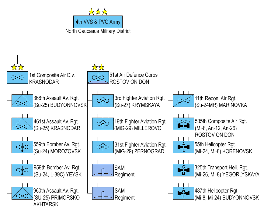 Structure 4th Air Army, Russian Air Force